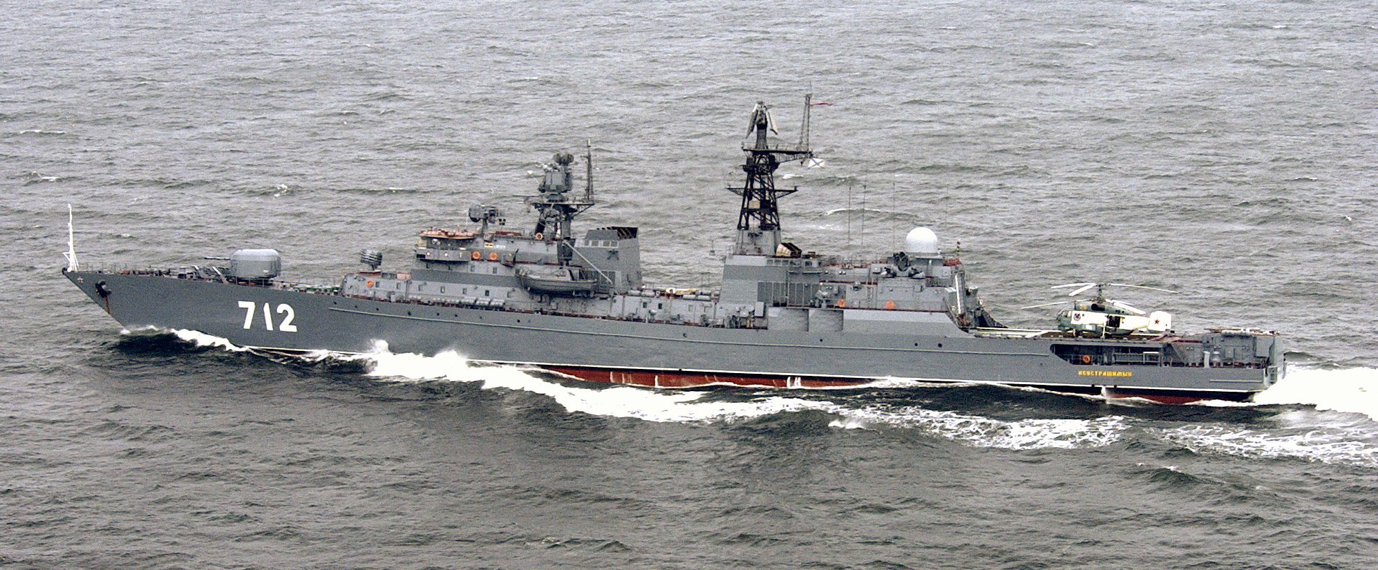 Portside view of the Russian Frigate NEUSTRASHIMYY (712) at it prepares its Kamov KA-27 Helix helicopter for take off during the annual Baltic Sea maritime Exercise BALTIC OPERATIONS 2004 (BALTOPS).